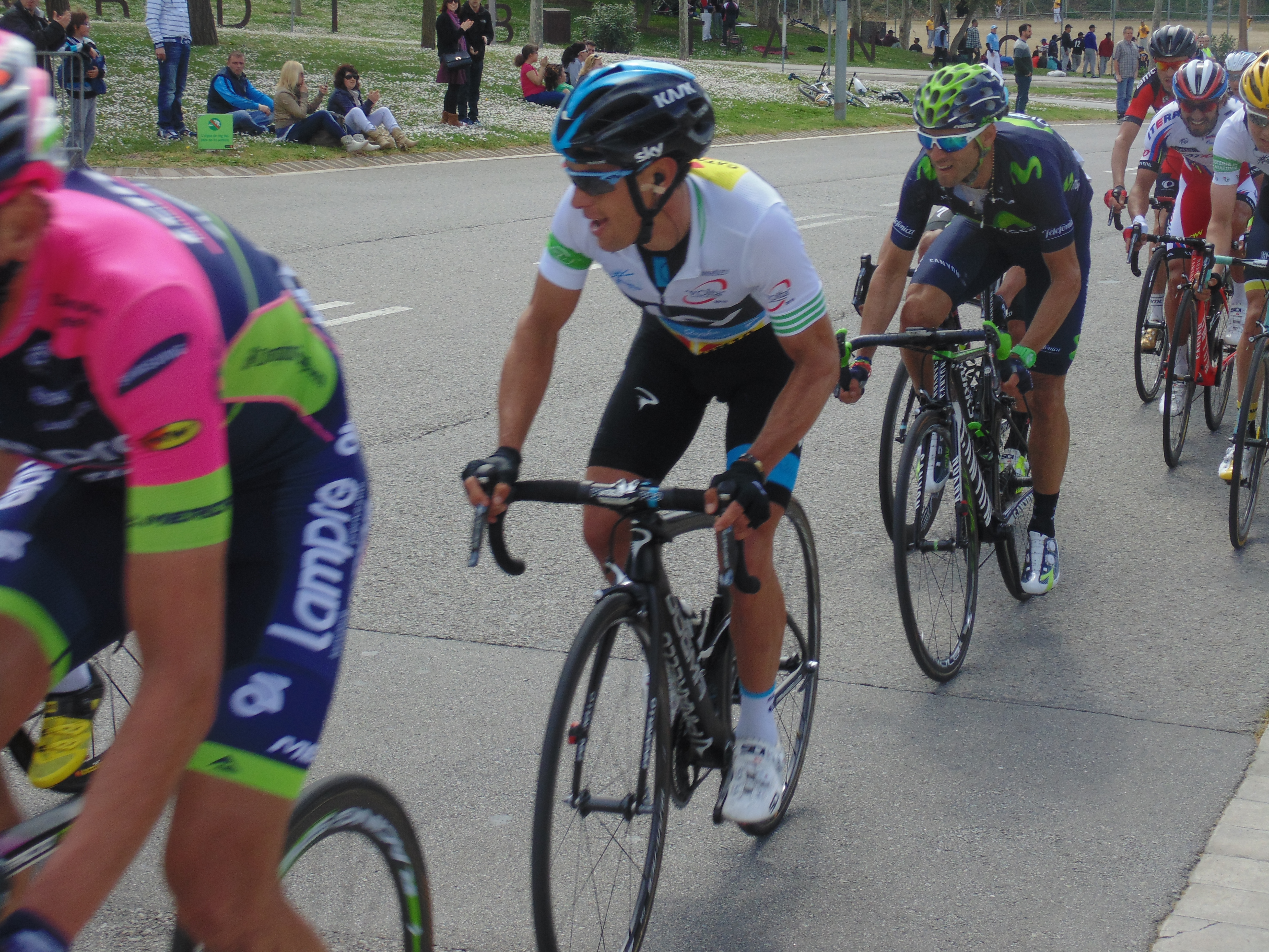 Eventual overall winner Richie Porte (white jersey) and stage winner Alejandro Valverde (darkblue/green) during the closing stage of the 2015 Volta a Catalunya.